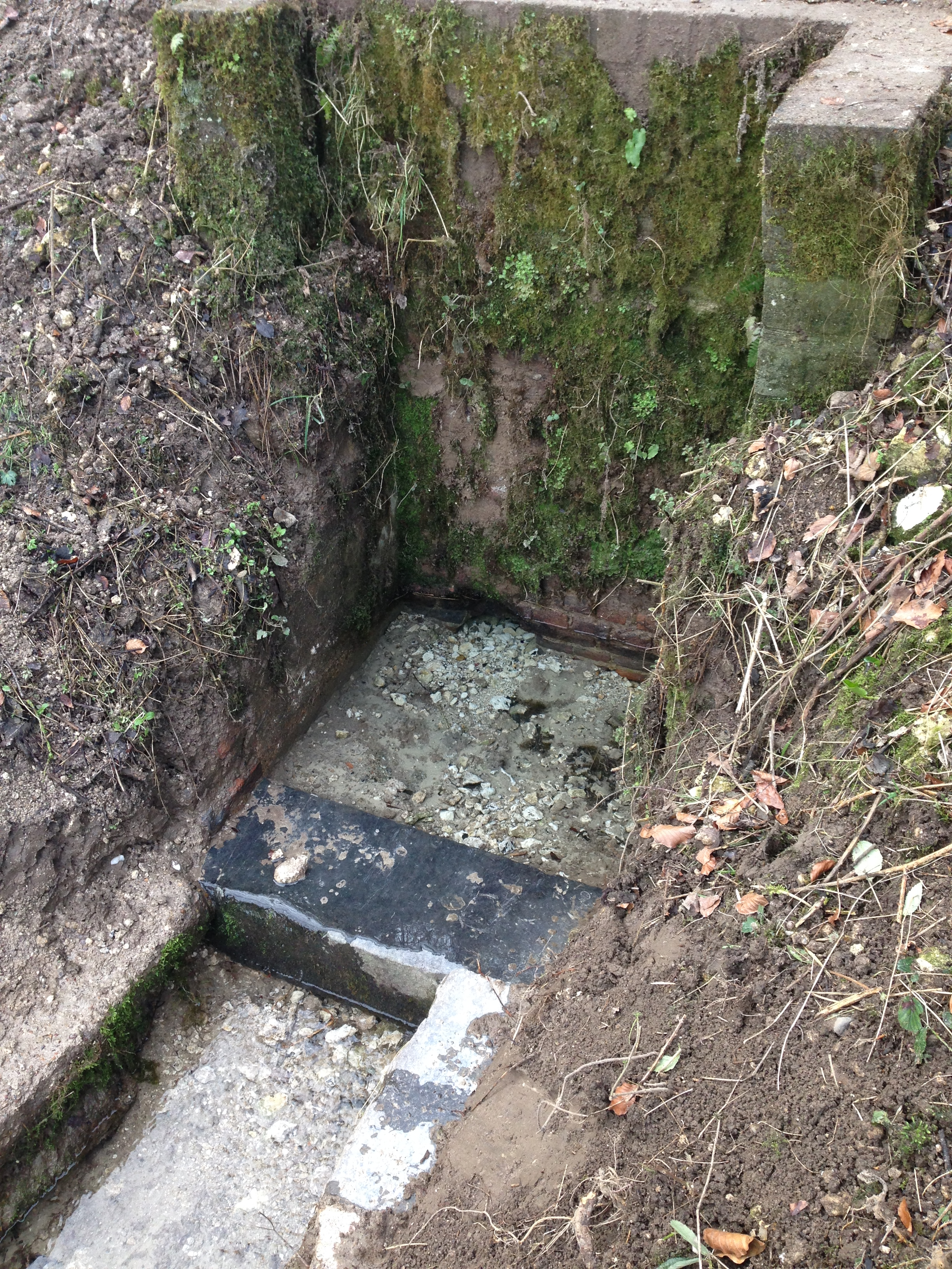 The Gronselen well, after renovation (Feb. 2015)